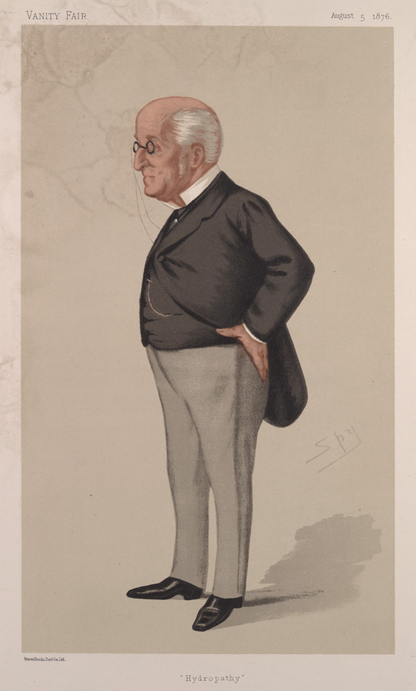 Men of the Day No.133: Caricature of Mr James Manby Gully MD. Caption reads: "Hydropathy"